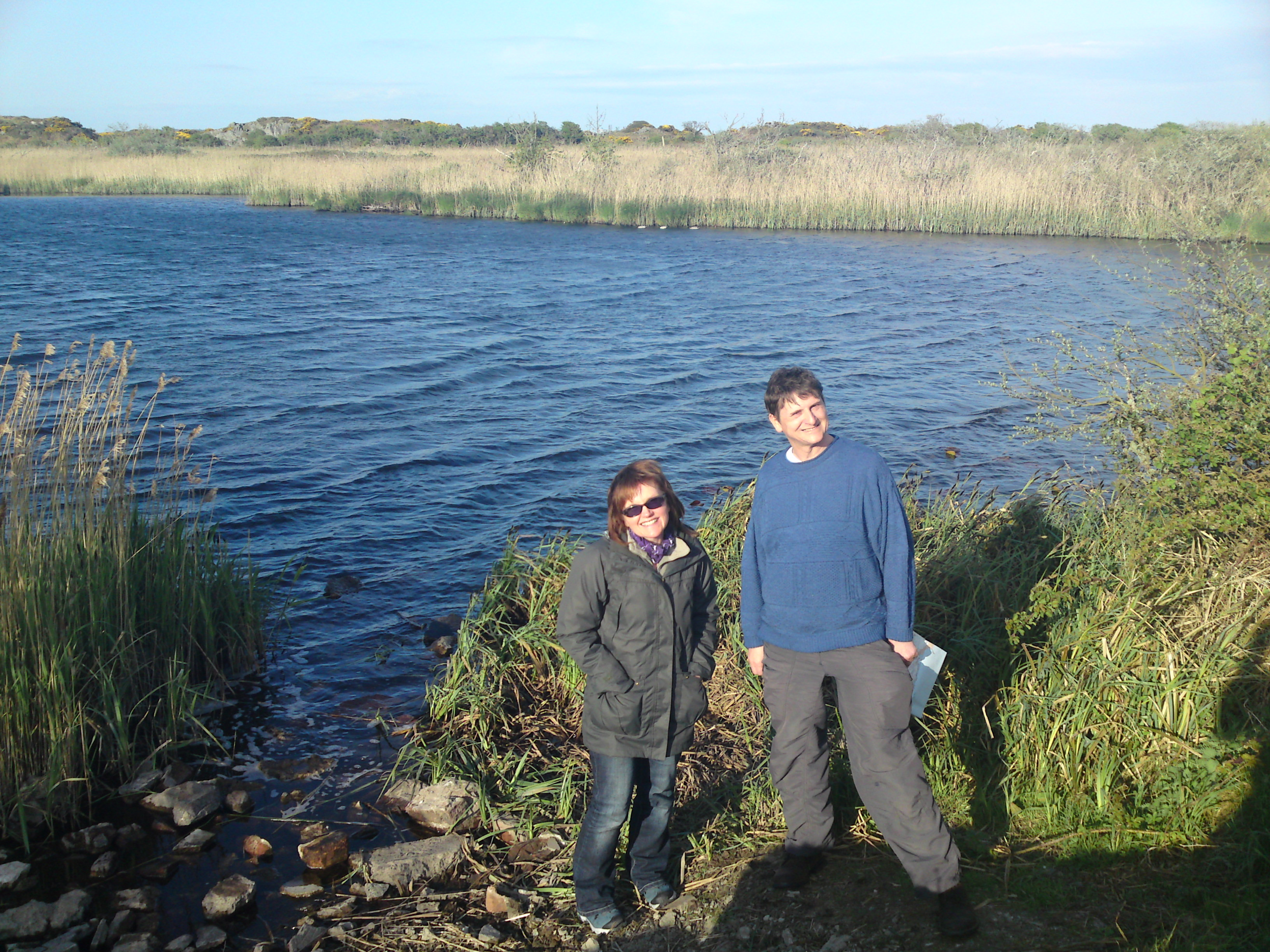 Llyn Cerrig Bach with two adults